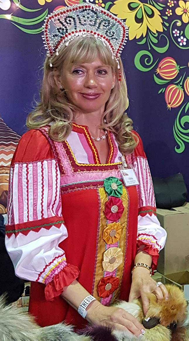 Aliona Zander at a charity event in Luxembourg.